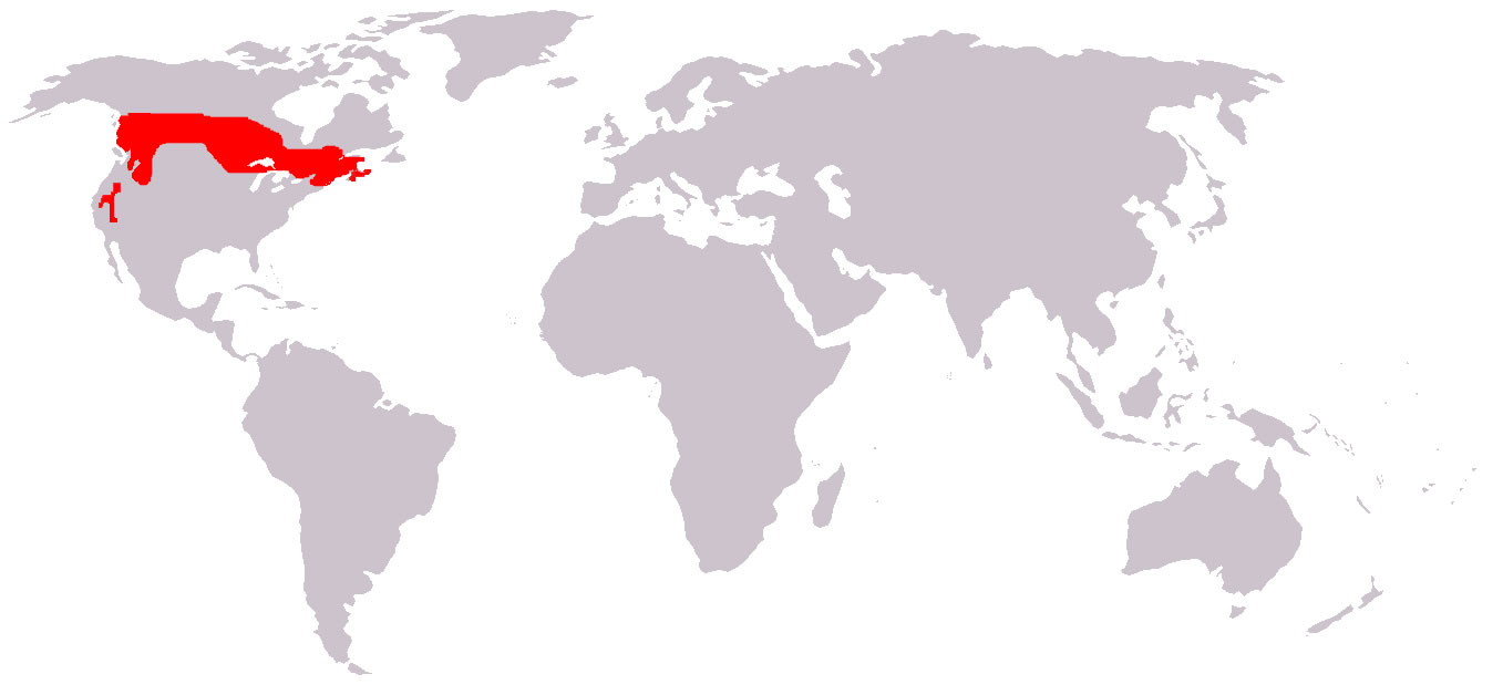 Range map of Fisher (Martes pennanti)